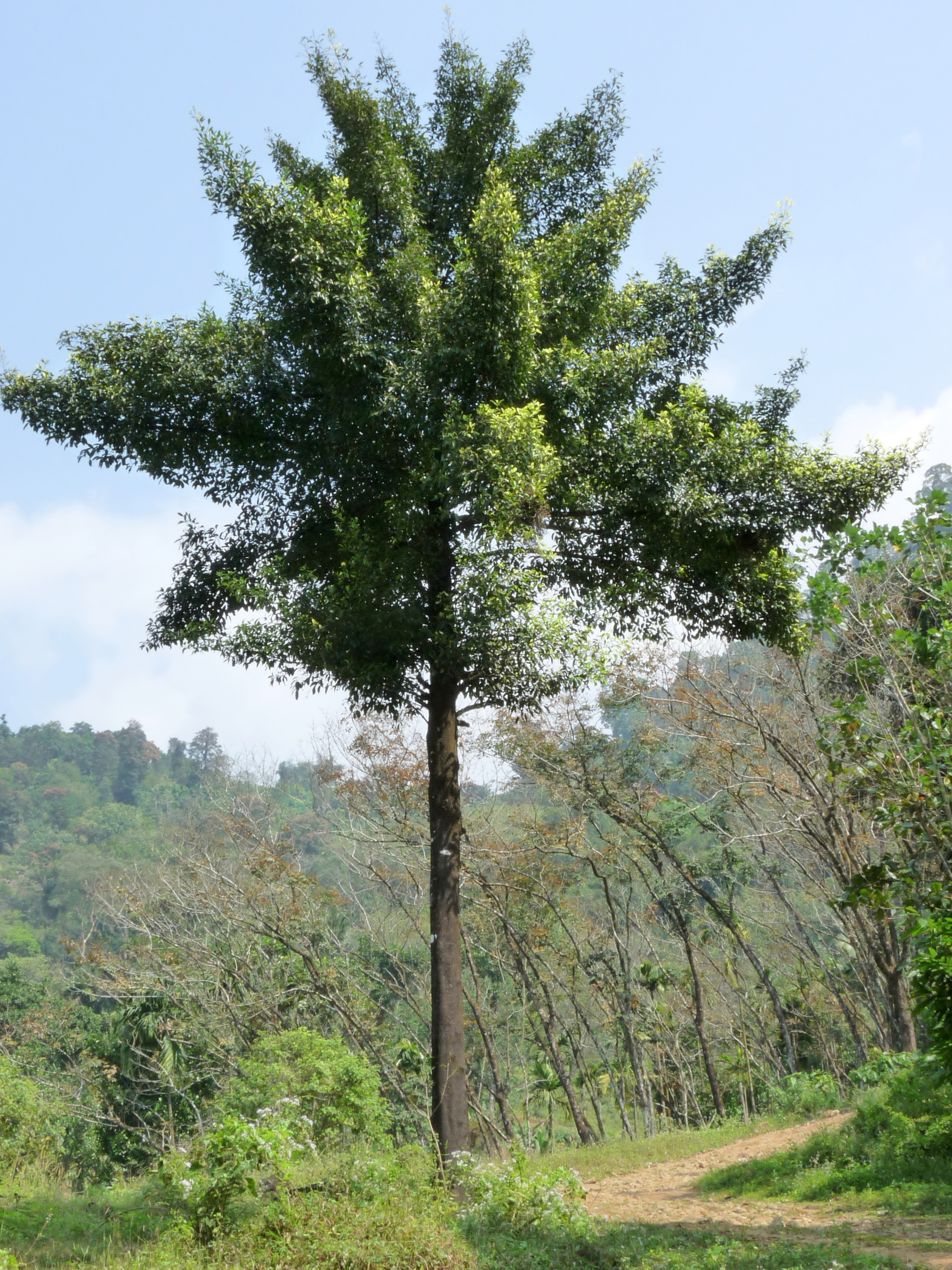 Garcinia gummi-gutta is a tropical species of Garcinia native to Indonesia. Common names include Garcinia cambogia (a former scientific name), as well as Gambooge, Brindleberry, Brindall berry, Malabar tamarind, Assam fruit, Vadakkan puli (Northern tamarind) and Kudam puli (Pot tamarind). This fruit looks like a small pumpkin and is green to pale yellow in color. It is one of several closely related Garcinia species from the plant family Guttiferae. With thin skin and deep vertical lobes, the fruit of G. gummi-gutta and related species range from about the size of an orange to that of a grapefruit; G. gummi-gutta looks more like a small yellowish, greenish or sometimes reddish pumpkin. The color can vary considerably. When the rinds are dried and cured in preparation for storage and extraction, they are dark brown or black in color. Along the west coast of South India, G. gummi-gutta is popularly termed "Malabar tamarind," and shares culinary uses with the Tamarind (Tamarindus indica"').